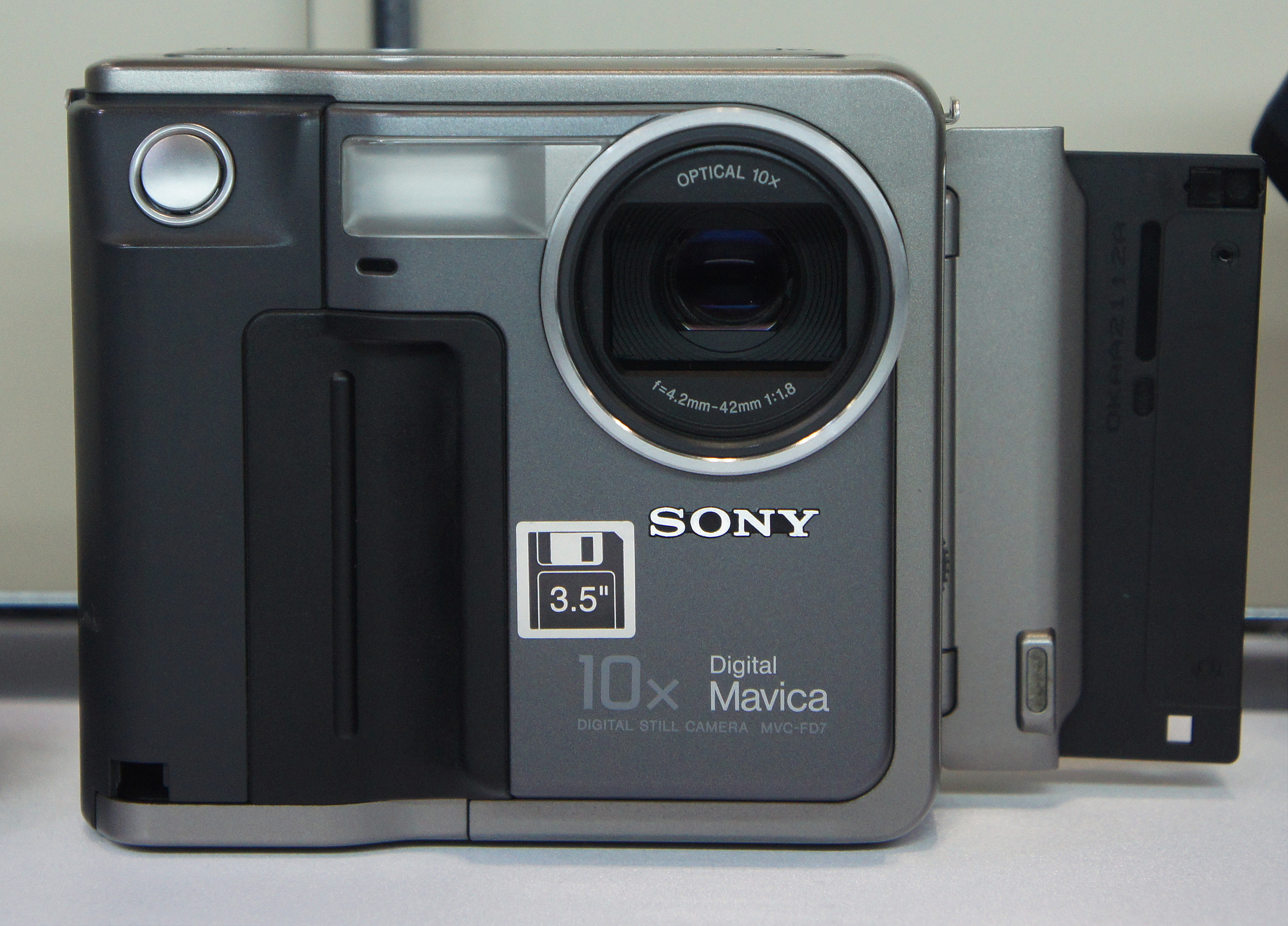 CP+ 2011: 1997 Sony Mavica MVC-FD7